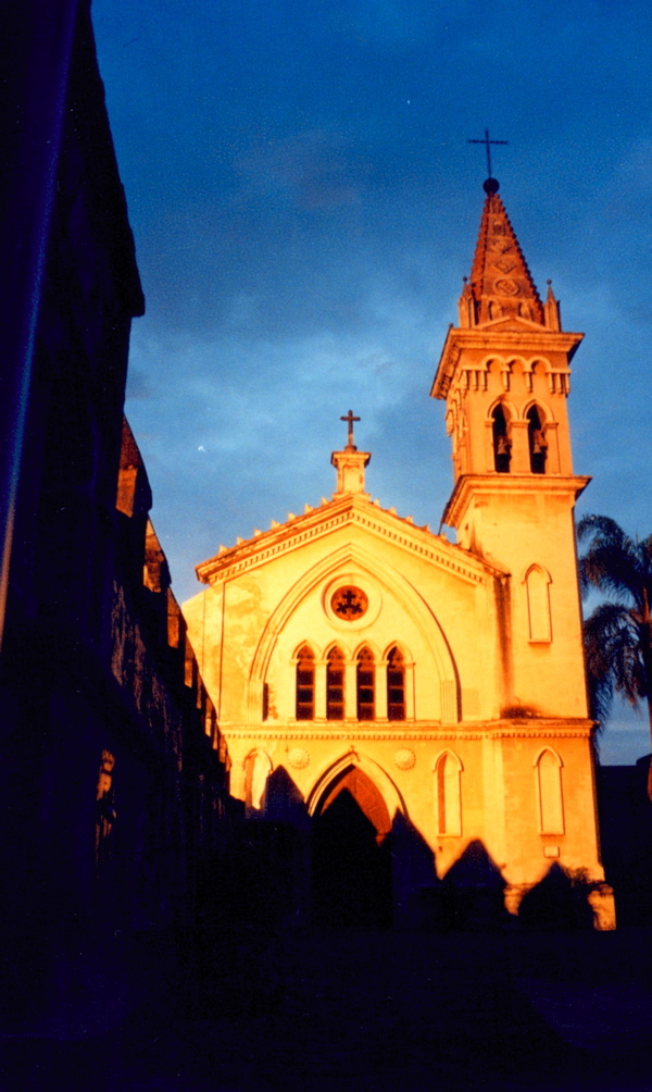 Cuernavaca's cathedral side-chappel taken on an early morning. f/1.8, bulb, fujifilm asa 100 film, corrected angle because I suck at framing. Please credit Schrödinger's cat if you plan to use this photograph for any enterprise.